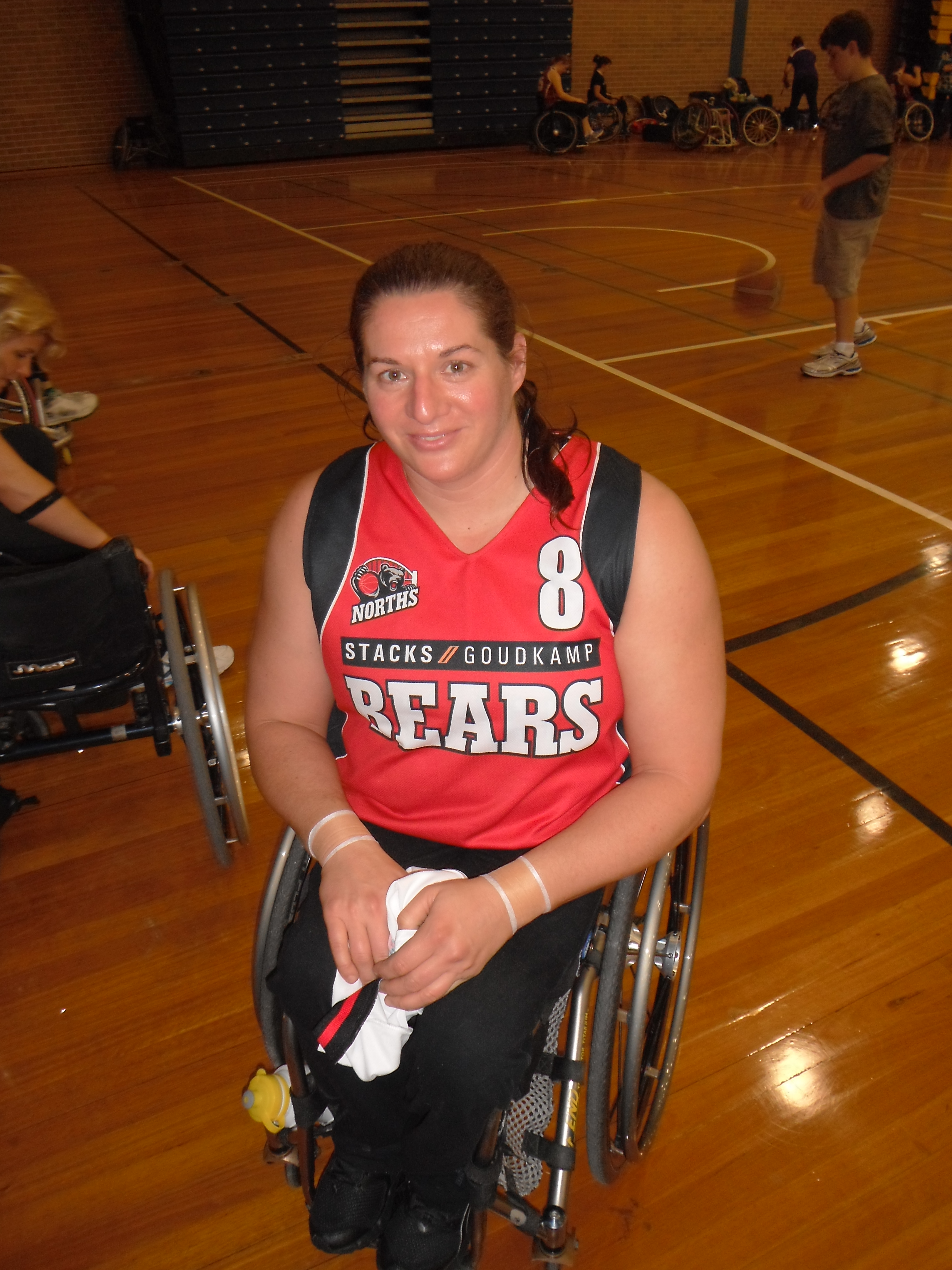 Louise Sauvage playing wheelchair basketball for the Stacks Goudcamp Bears